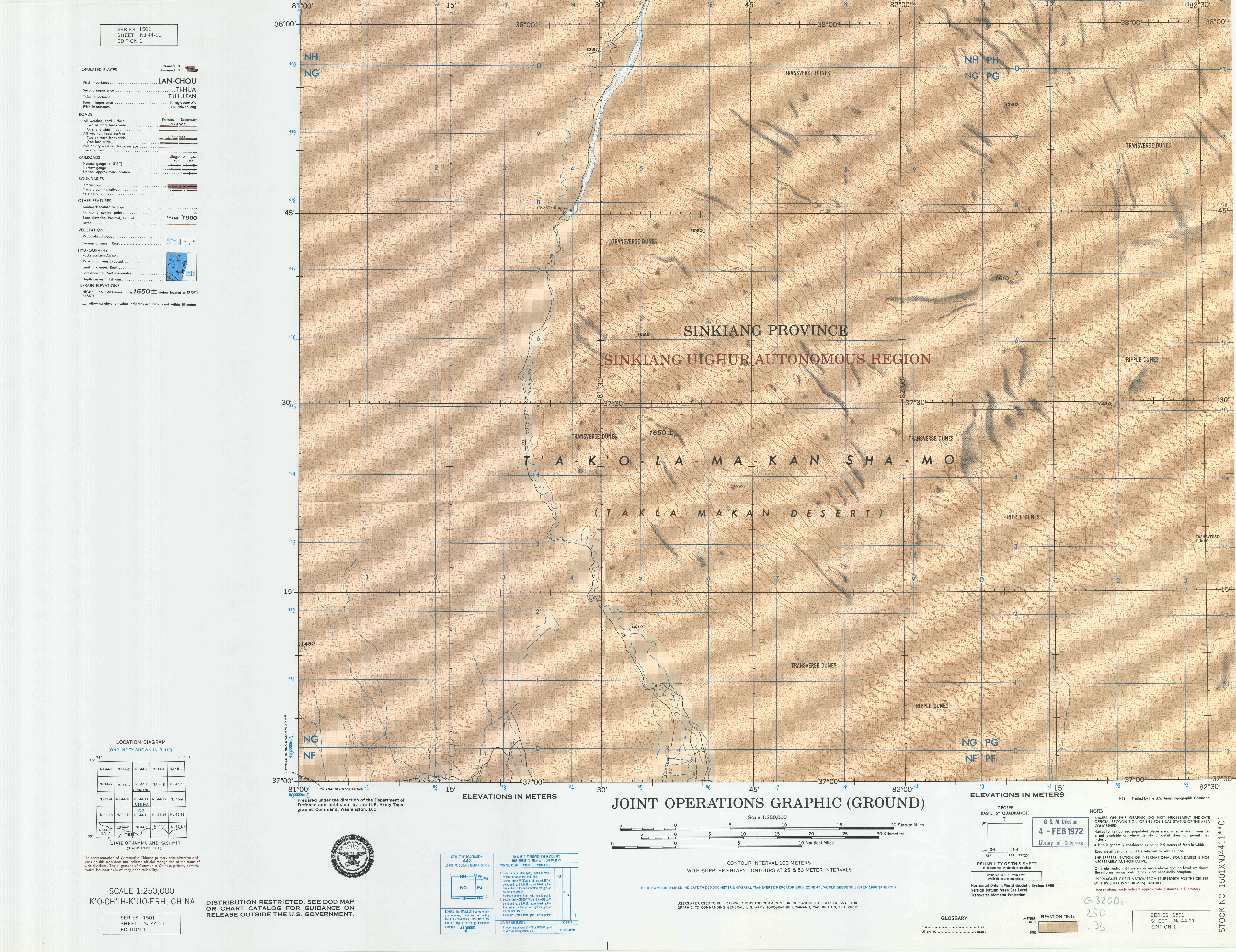 NJ-44-11 Takla Makan Desert